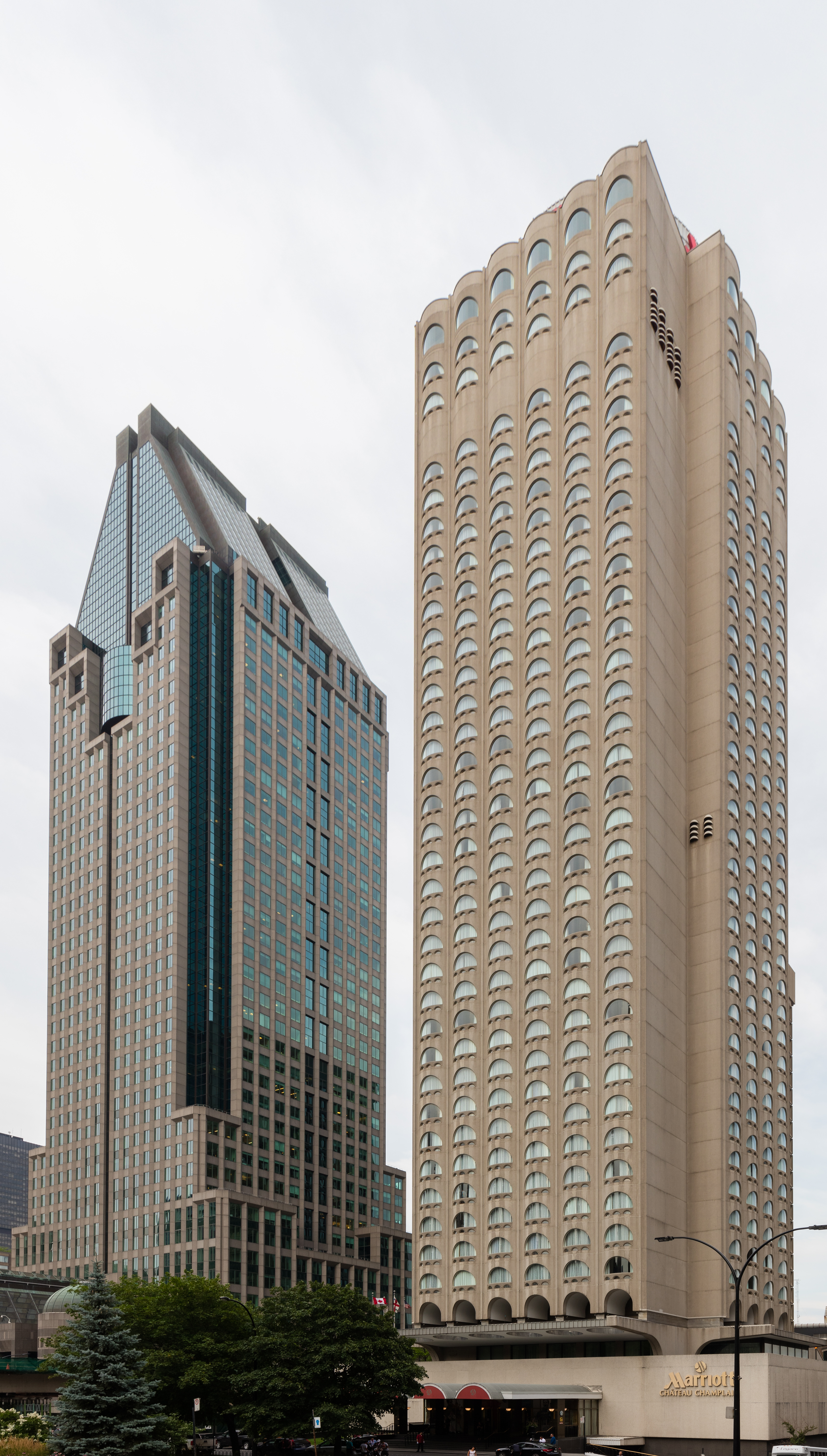 1000 de La Gauchetière and Marriott hotel, Montreal, Canada